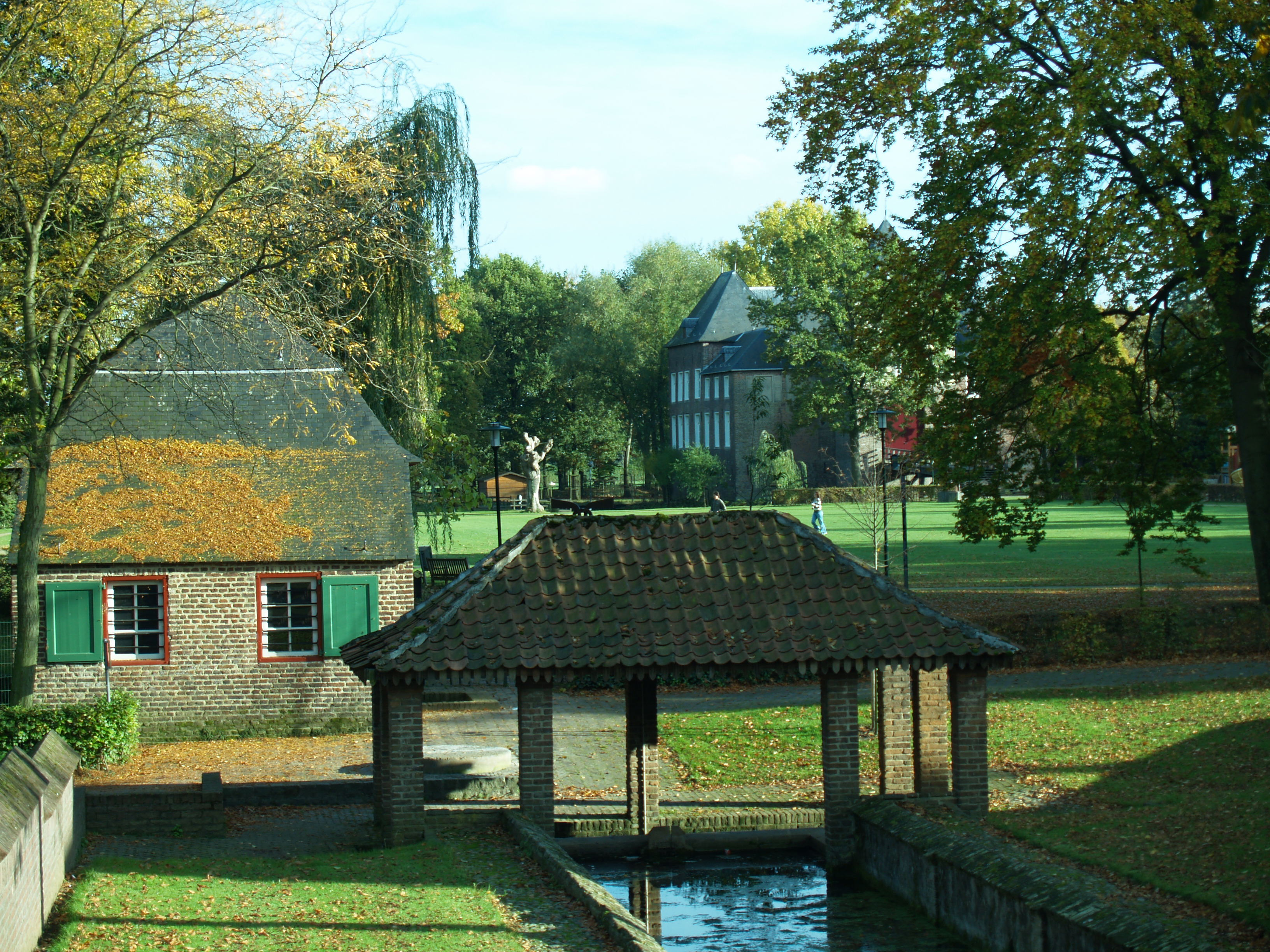 Baarlo. In the front The Sprunk and at the left side Water Mill. Behind Castle d'Erp/The Netherlands.